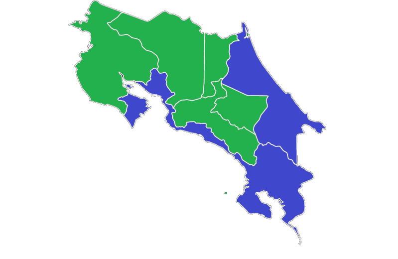 Resultados electorales provinciales 1986, fuente